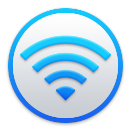 AirPort Utility Icon